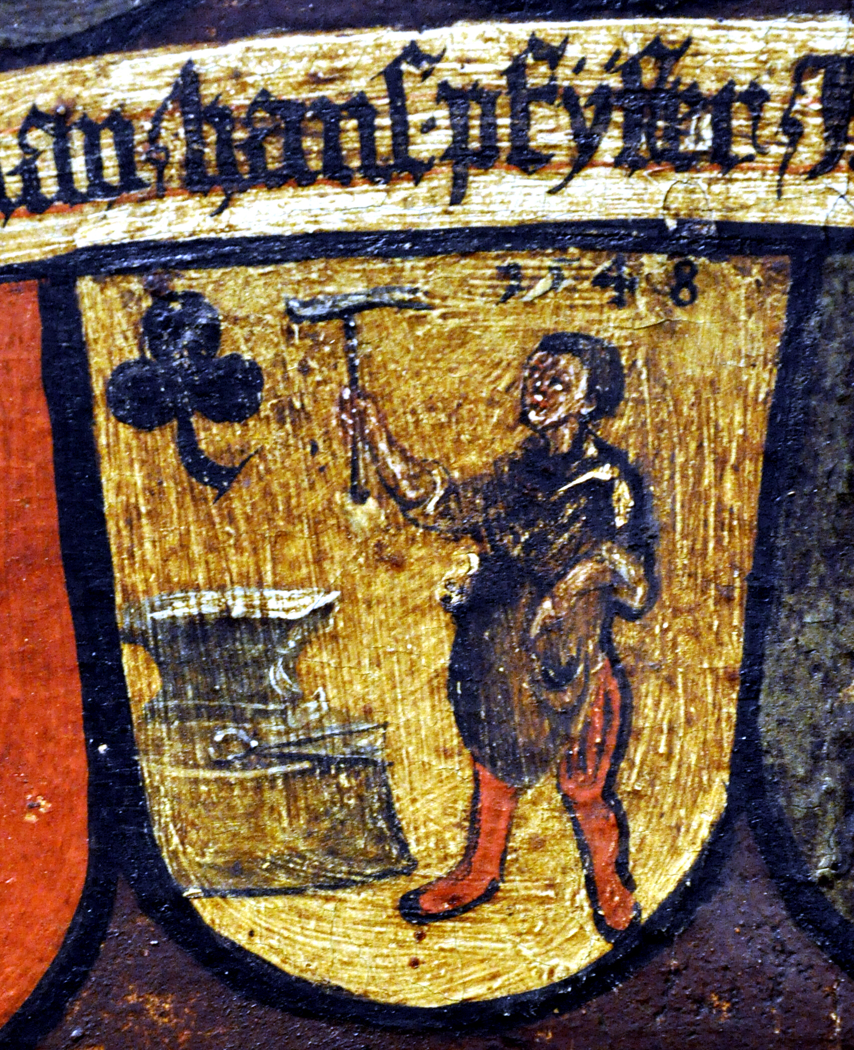 Museum Humpis-Quartier, Ravensburg Meistertafel der Schmiedezunft Ravensburg (ab 1505), Detail Hans Pfyffer, 1548 Humpis-Quartier Native nameMuseum Humpis-QuartierLocationRavensburg, GermanyCoordinates47° 46′ 49.8″ N, 9° 36′ 57.24″ E Established2009Web page control : Q1637298 VIAF: 128828875 LCCN: nb2007020847 GND: 4565586-8 WorldCat institution QS:P195,Q1637298